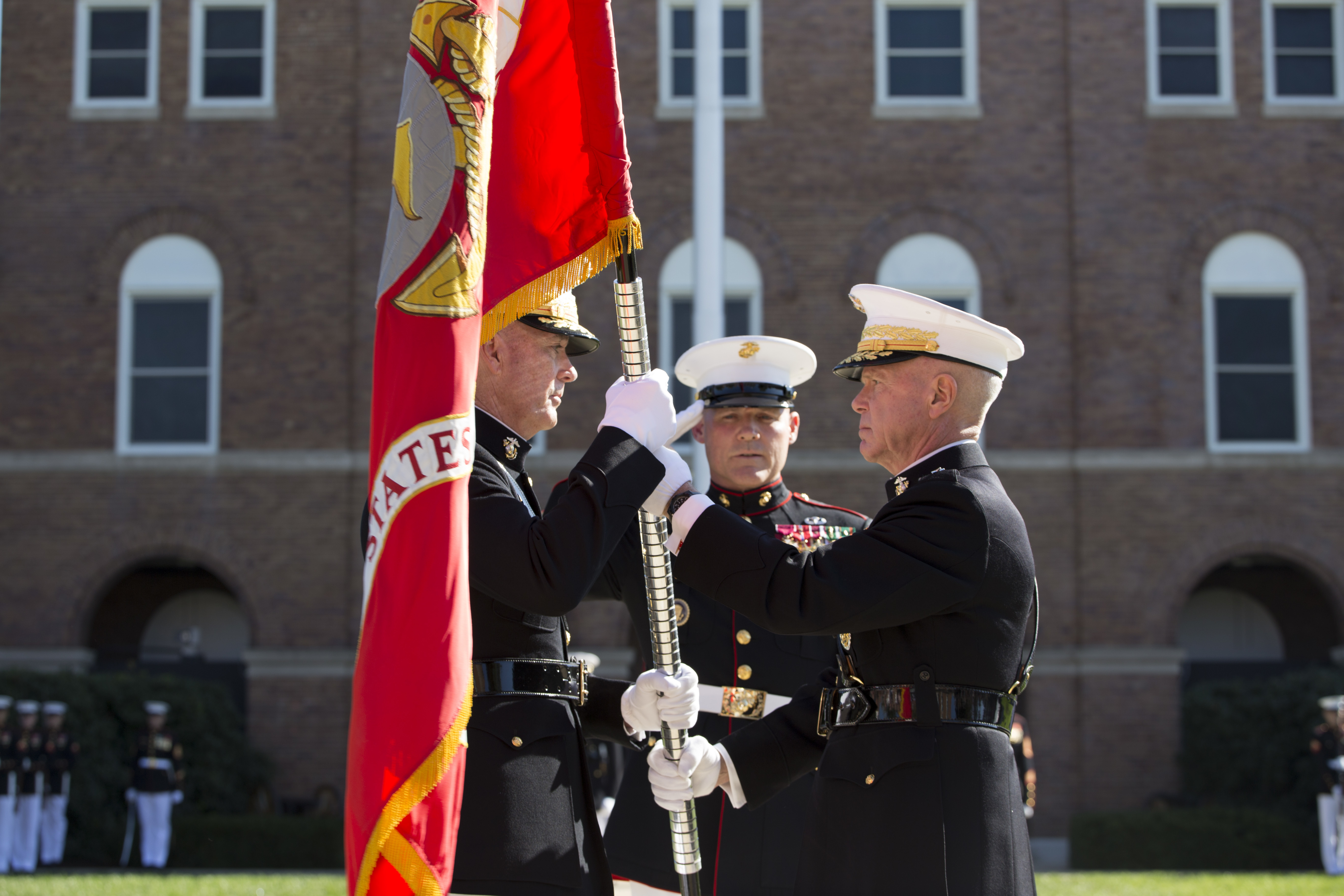 Marine Barracks Washington, District of Columbia - Gen. James Amos exchanges the Battle Colors of the Marine Corps with Commandant of the Marine Corps Gen. Joseph Dunford before an audience of service members during the commandant passage of command ceremony at Marine Barracks Washington,D.C., Oct. 17. After 44 years of honorable service to the Corps, Gen. James Amos passed his position of commandant to Gen. Joseph Dunford. (U.S. Marine Corps photo by Cpl. Clayton Filipowicz/Released)